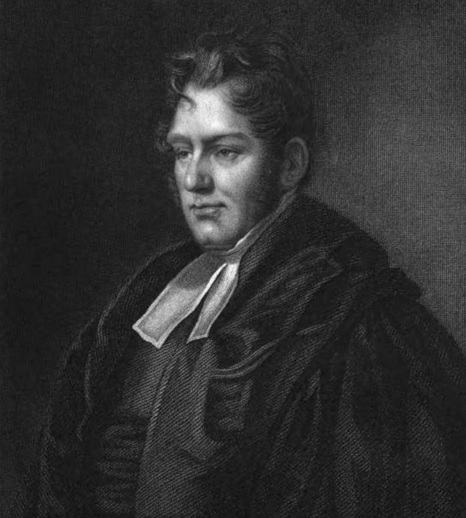 Portrait of Robert Walsh, engraved by J. Thompson from a painting by a Greek Artist at Constantinople. Source: A Residence at Constantinople, during a Period Including the Commencement, Progress, and Termination of the Greek and Turkish Revolutions. London: Frederick Westley and A.H. Davis, Volume I (1836)